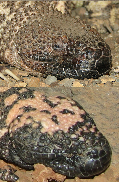 Comparison of the heads of the Gilamonster Heloderma horridum (below) and the Mexican Beaded Lizard Heloderma suspectum (above). The former always has markings on the head, the Mexican Beaded lizard doesn't.